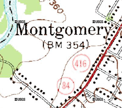 Map showing routing of now-discontinued NY 84 and NY 416 in Montgomery, NY, USA prior to construction of Interstate 84 and subsequent renumbering of roads to avoid confusion